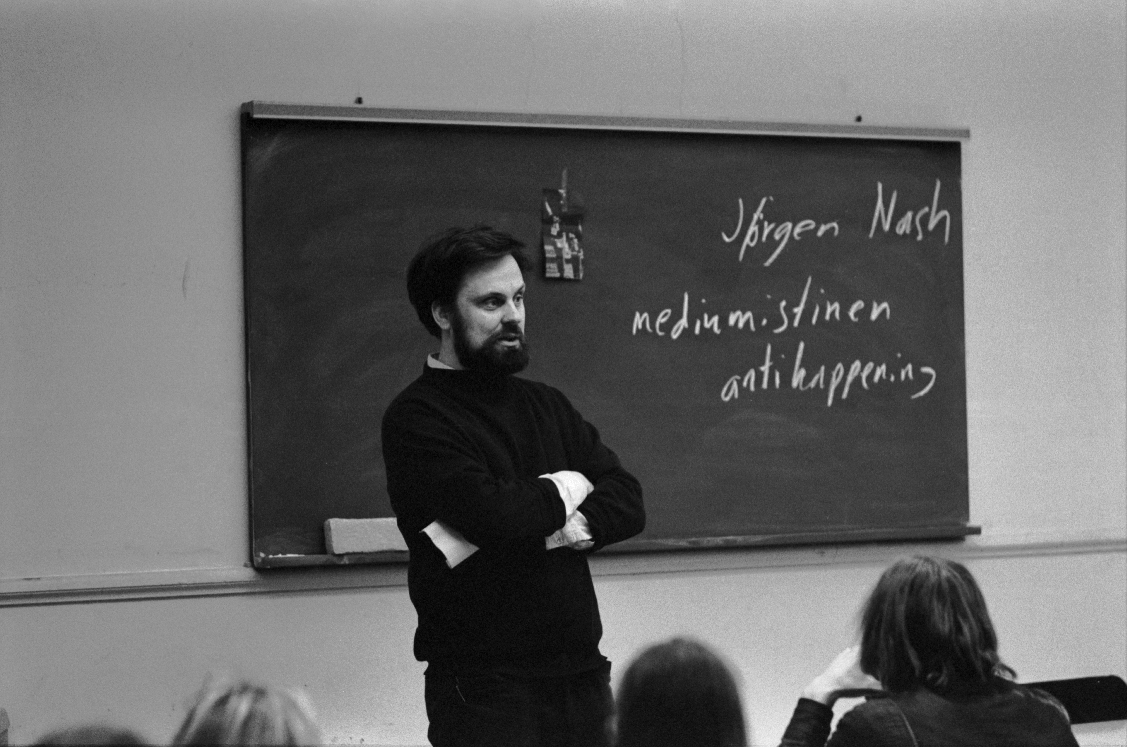 Photograph of the Finnish art historian Severi Parko (1932–2014) lecturing at Ateneum museum in Helsinki.